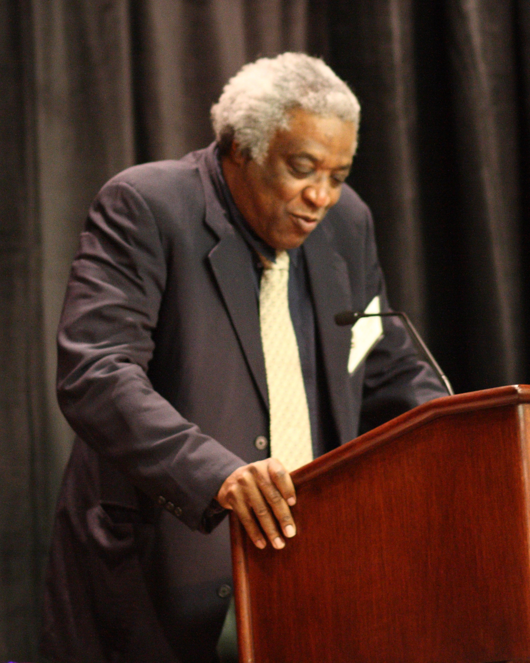 Kenneth Manning, Thomas Meloy Professor of Rhetoric and of the History of Science at the Massachusetts Institute of Technology, at the 2009 History of Science Society meeting in Phoenix, Arizona